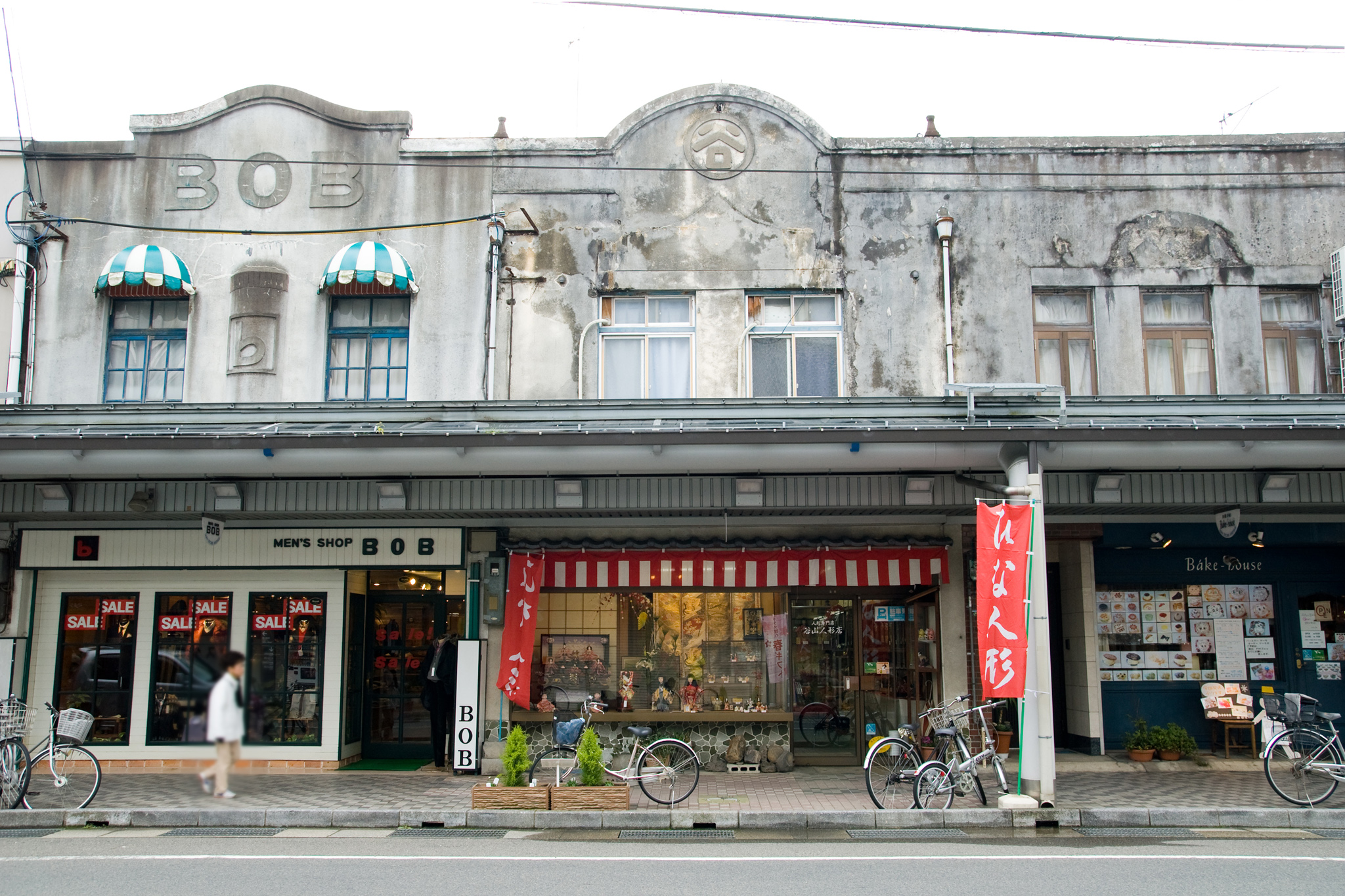 This is a "Fire prevention house" in Daikai street.